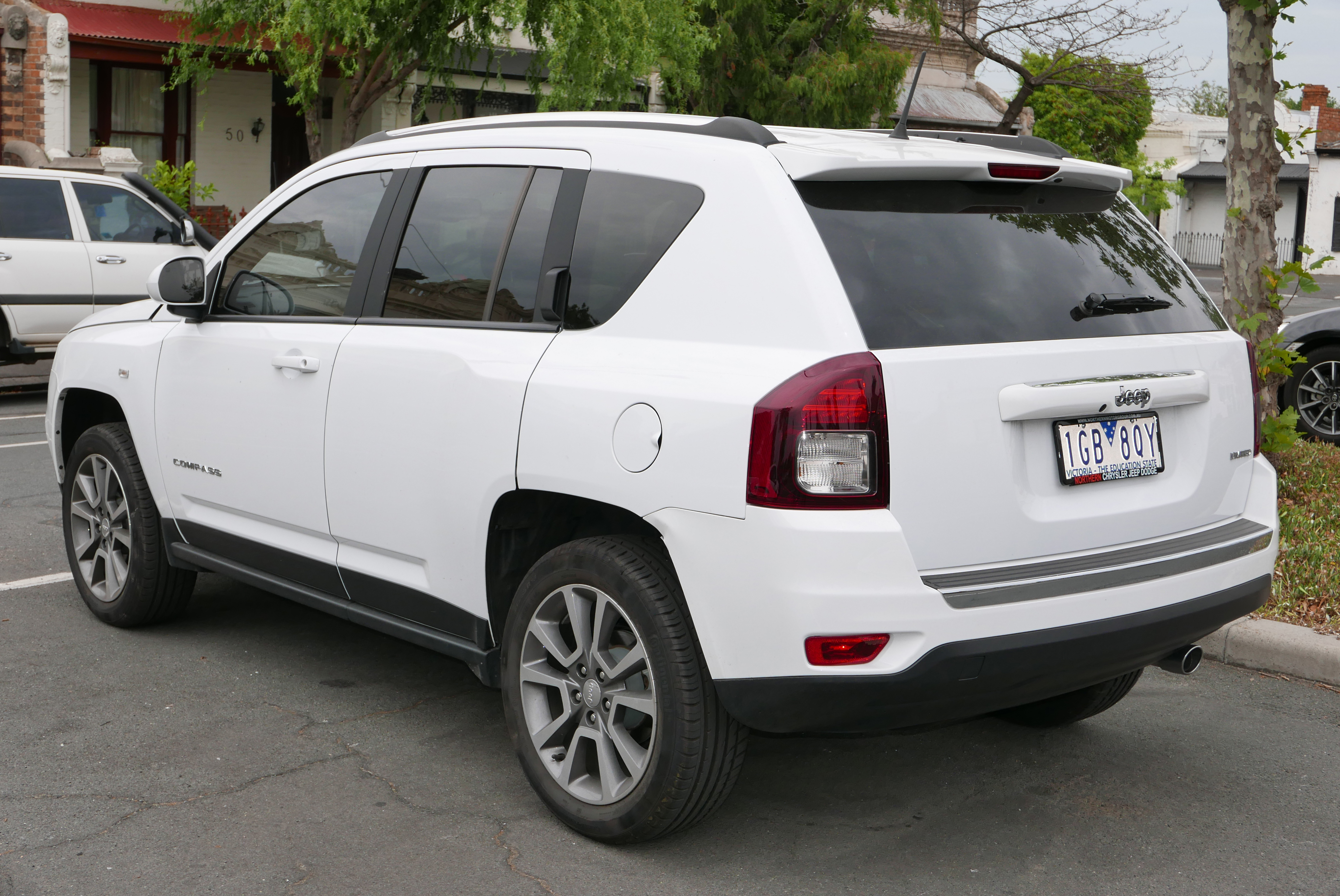 2015 Jeep Compass (MK MY16) Limited wagon. Photographed in Princes Hill, Victoria, Australia. Vehicle registration enquiry resultsJurisdictionVictoriaRegistration1GB8QYChassis code1C4NJDDB5FD236540Engine codeBFD236540Compliance date2015-10Year of manufacture2015